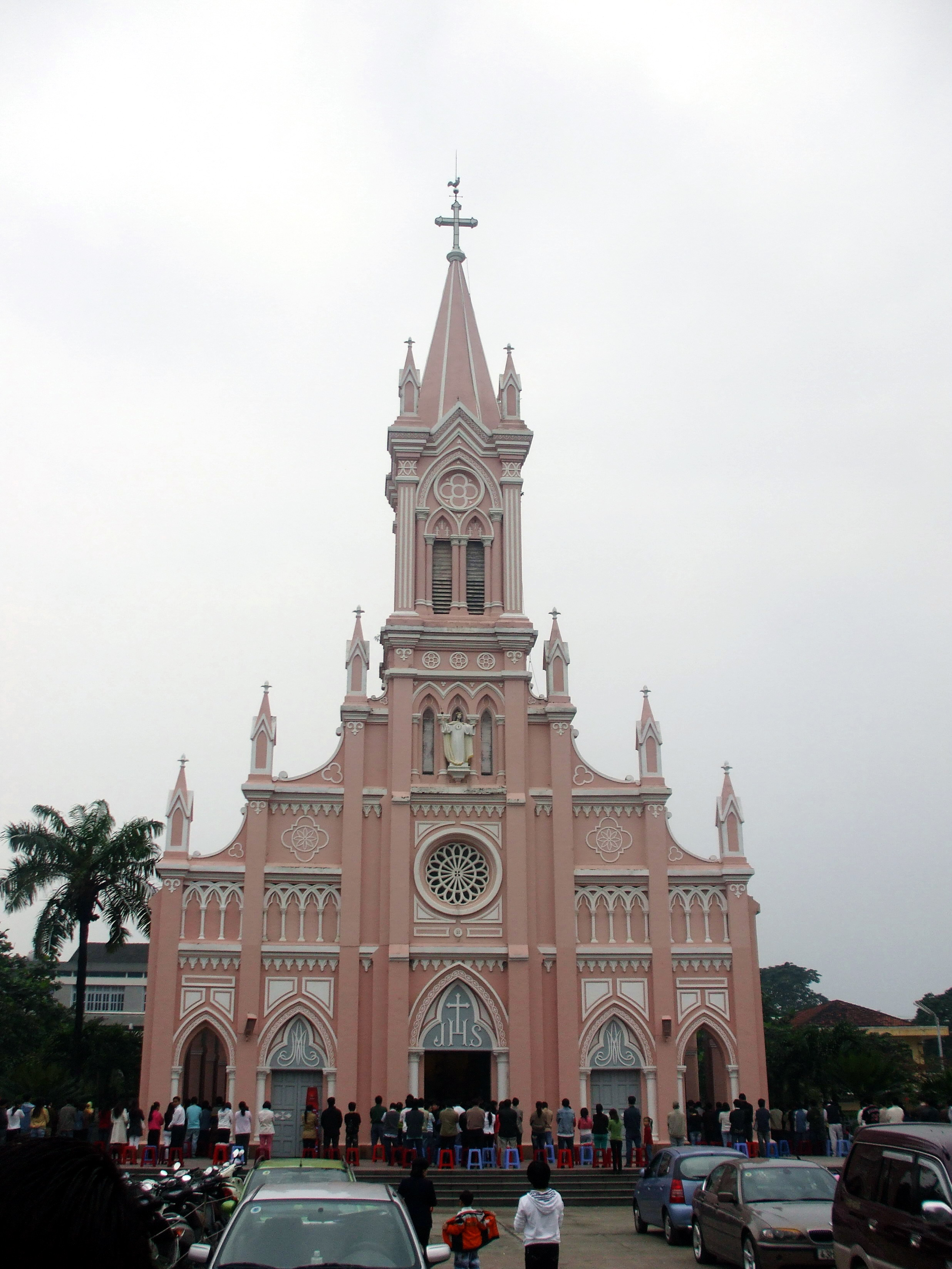 Da Nang Cathedral, otherwise known as the "Rooster Church" (Nhà thờ Con Gà).